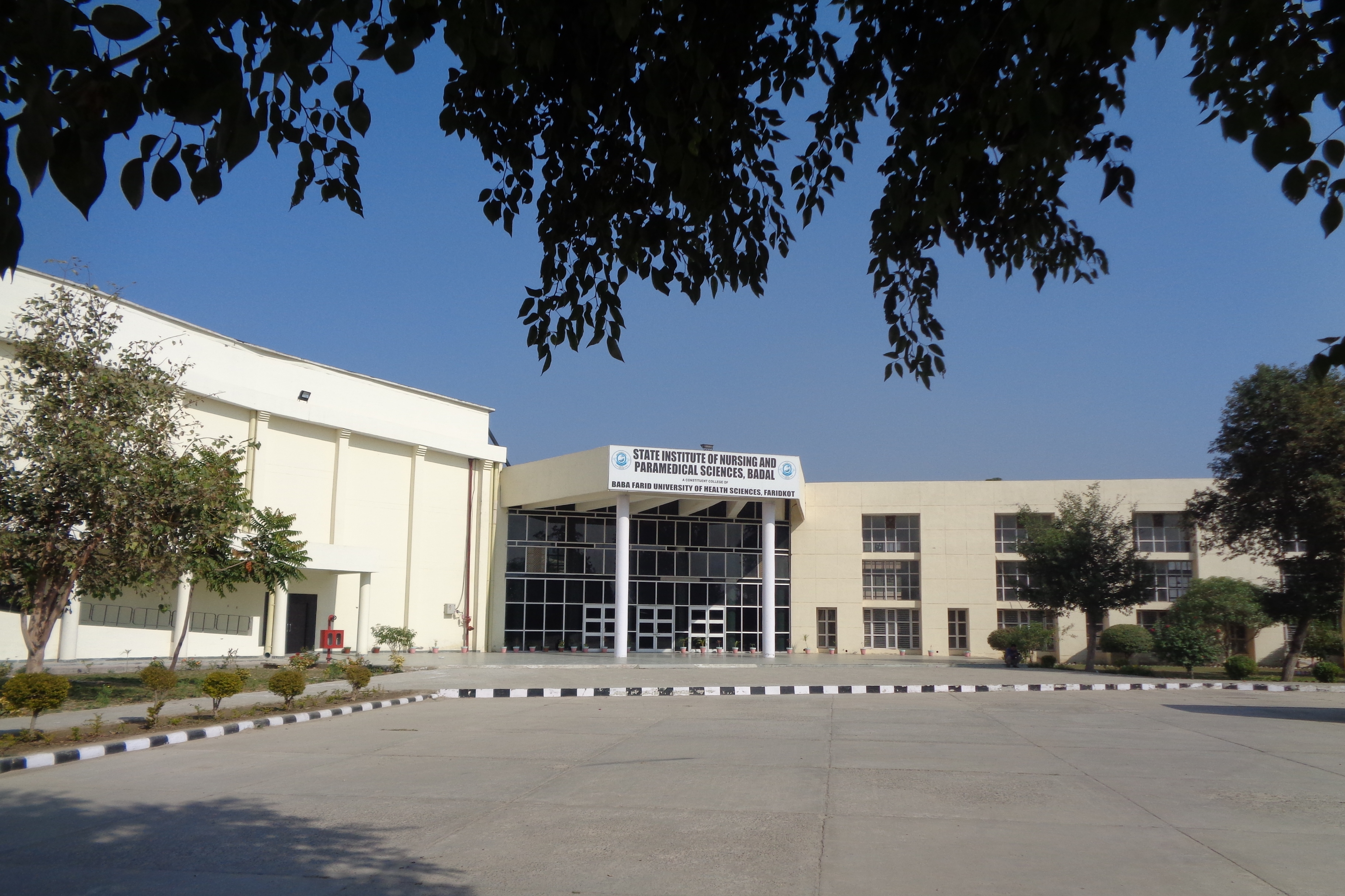 STATE INSTITUTE OF NURSING AND PARAMEDICAL SCIENCES, BADAL